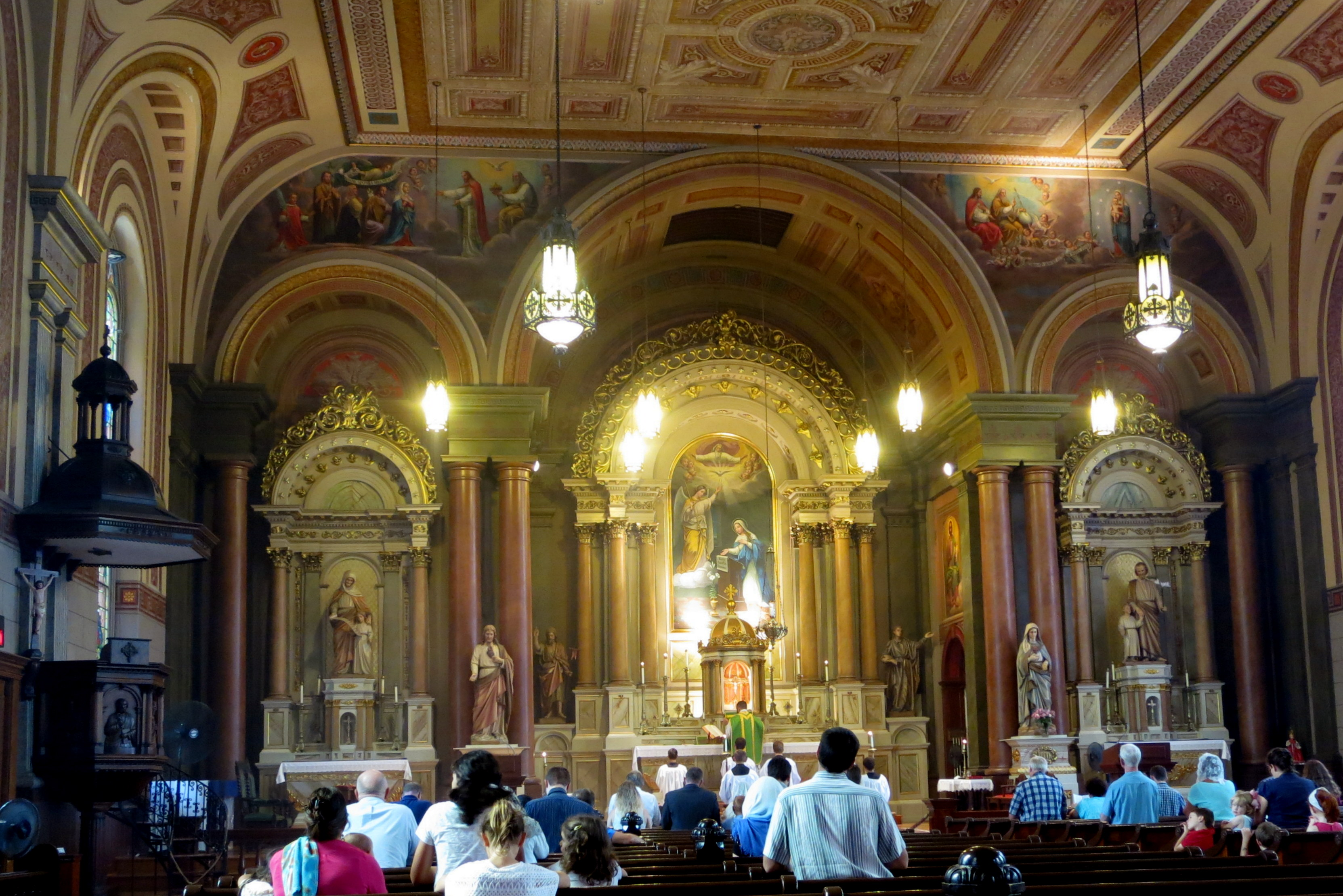 Old Saint Mary's Church (Cincinnati, Ohio) - Holy Sacrifice of the Mass